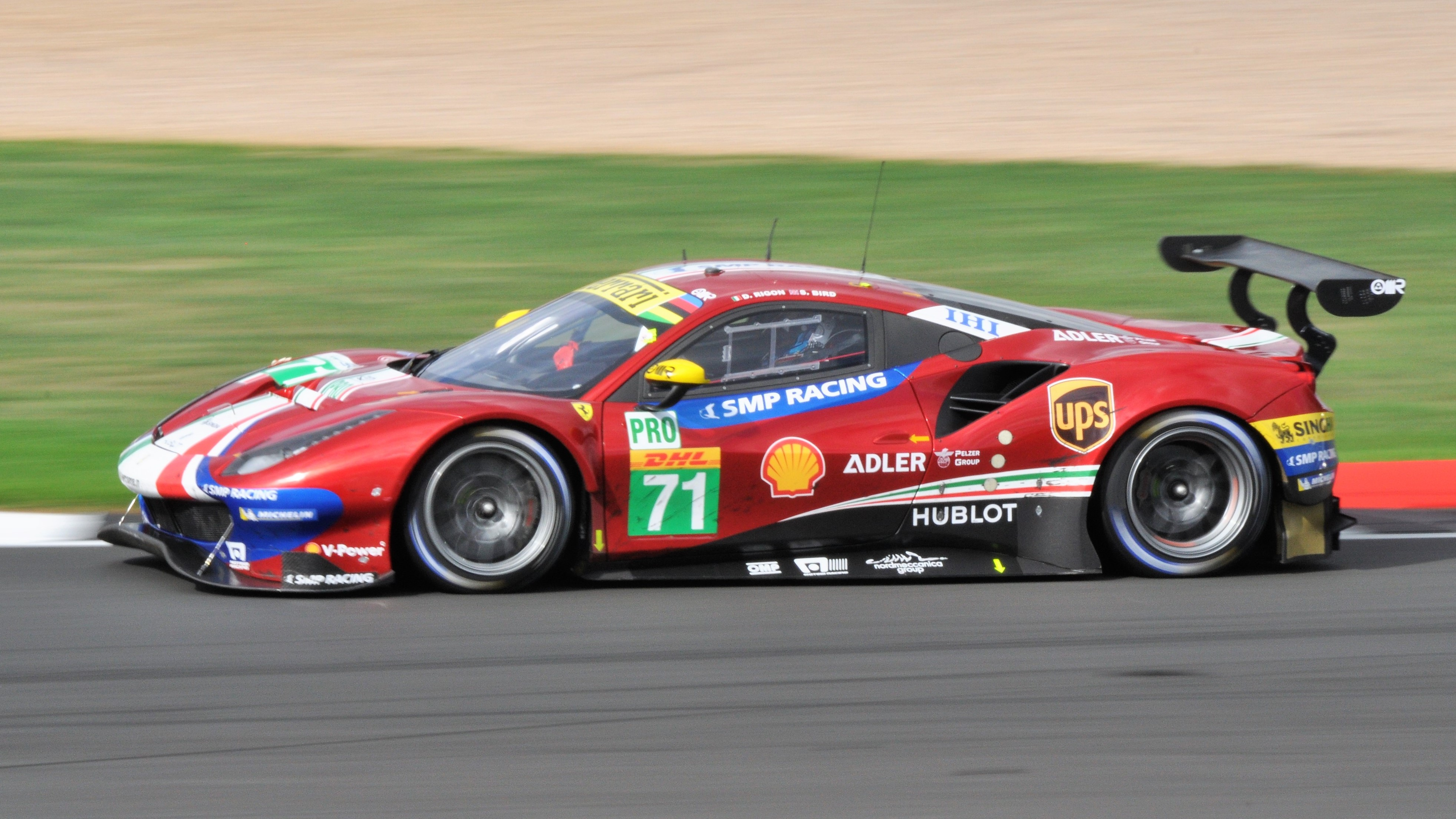 British driver Sam Bird in the number 71 AF Corse entry, at Club corner during the 2018 6 Hours of Silverstone race. Bird and his co-driver, Italian driver Davide Rigon, suffered mechanical troubles and finished only 16th in the LMGTE Pro class.